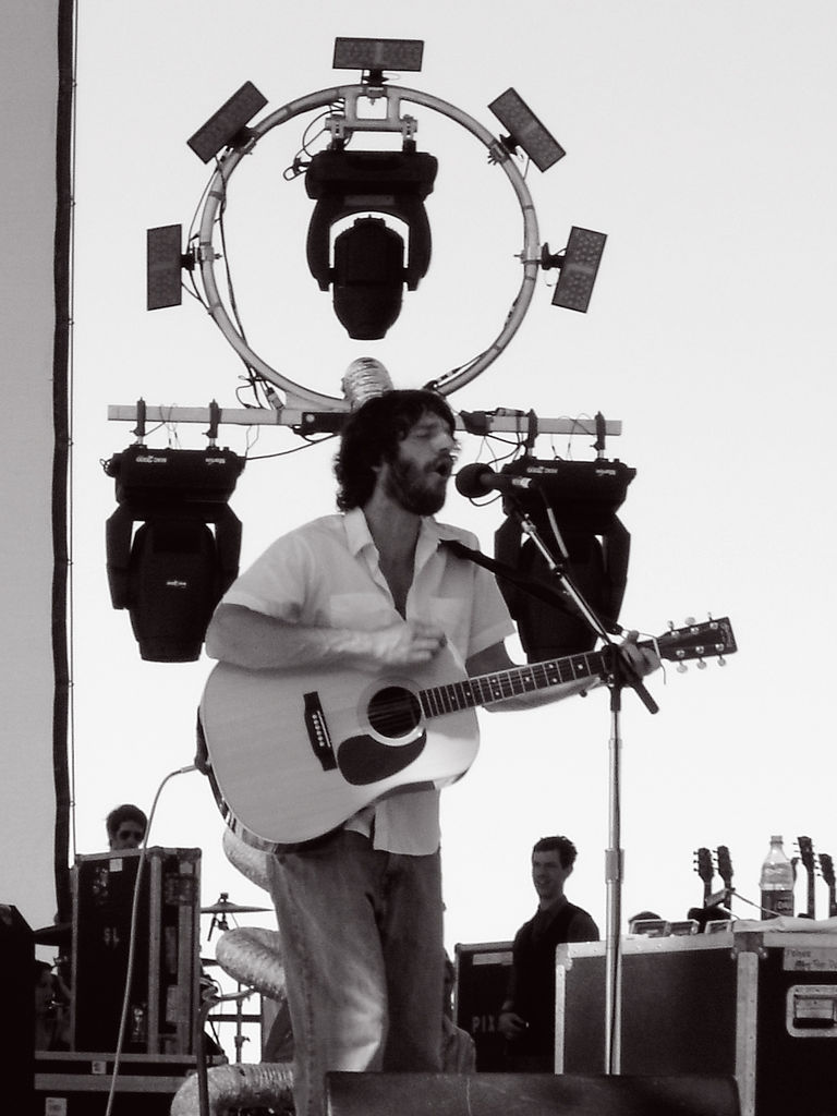 Ray LaMontagne performing live at the Sasquatch Music Festival